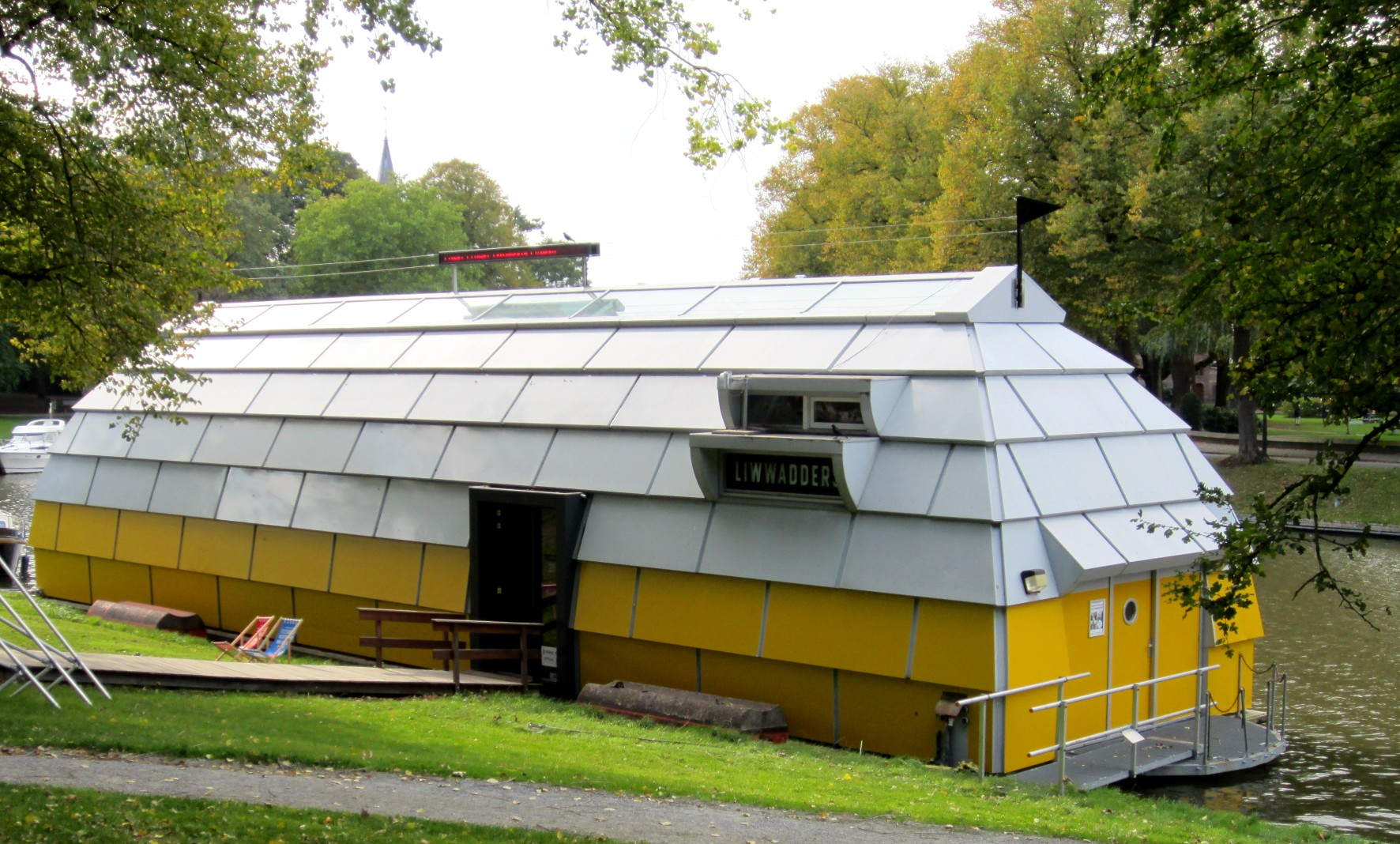 The Liwwadders Pavillion in the Prinsentuin, Leeuwarden/Ljouwert, Friesland, the Netherlands. Floating pavillion about the Leeuwarders dialect, part of European Capital of Culture 2018.